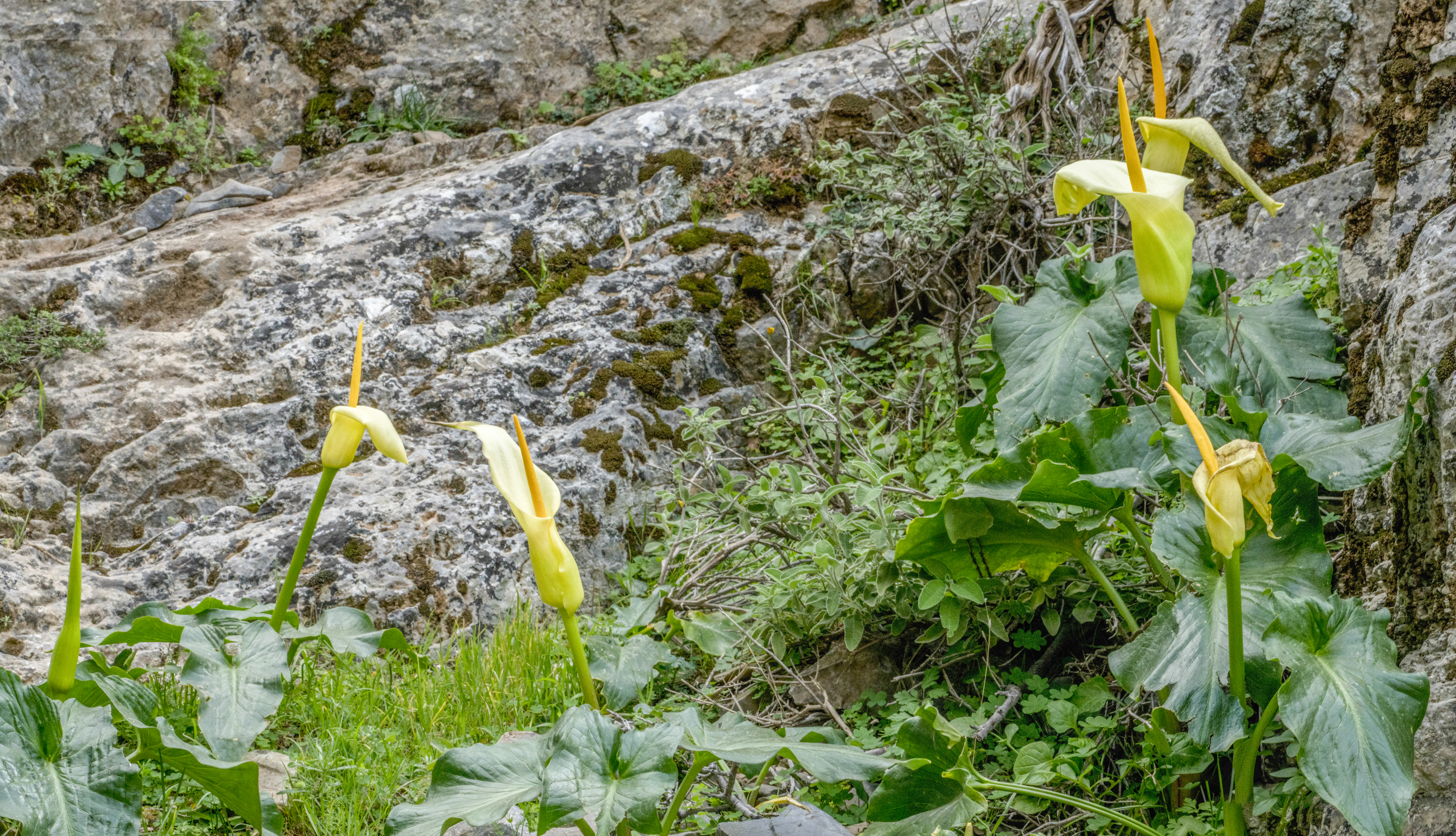 Arum creticum Cretan arum, Crete